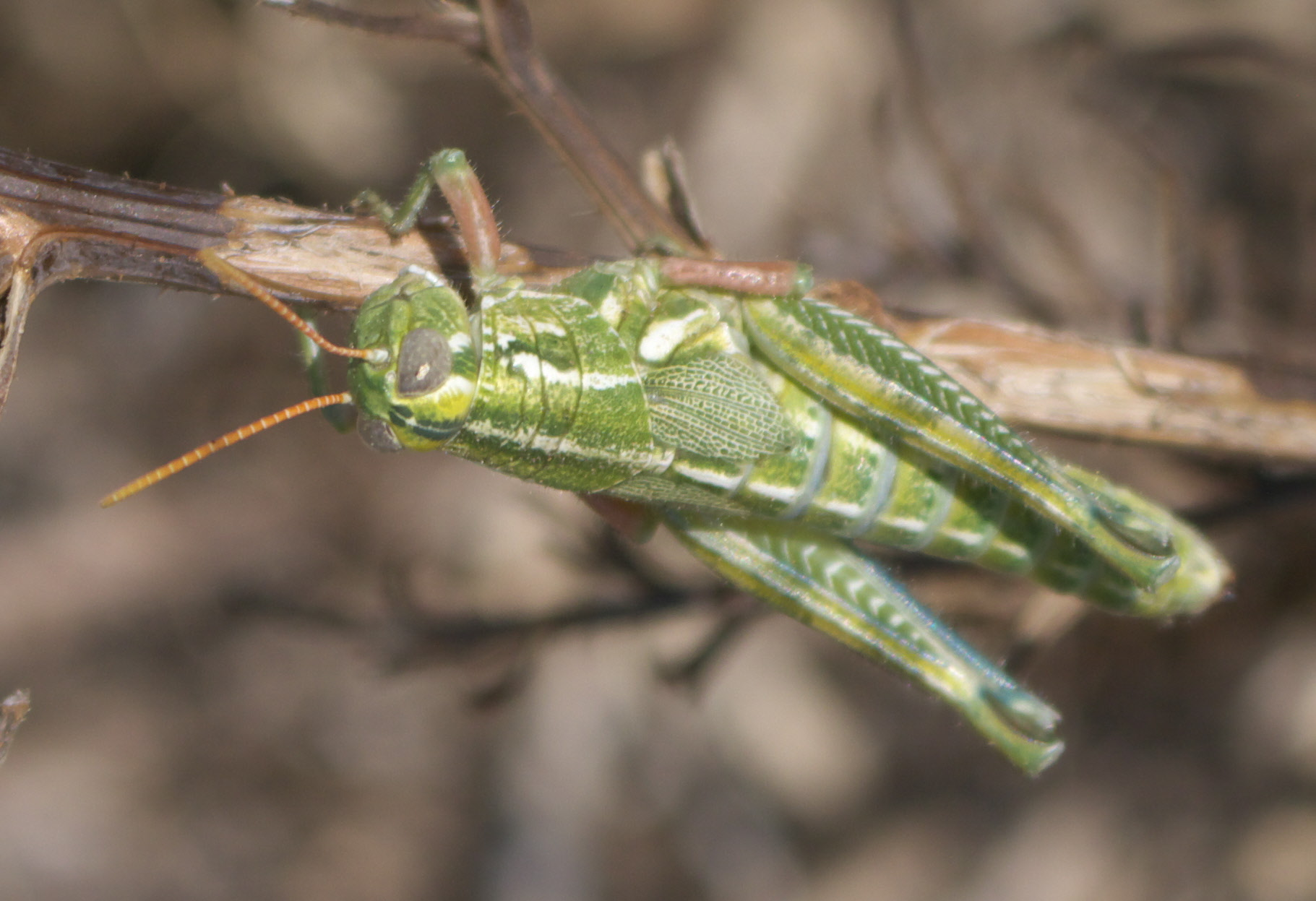 Campylacantha olivacea olivacea, fuzzy olive-green grasshopper, ID Confidence: 98